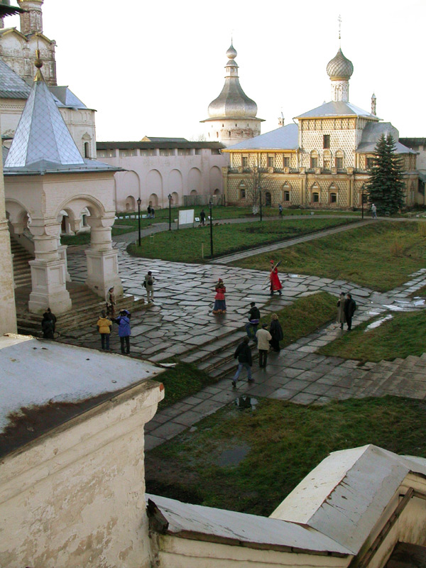 Inside the Rostov Kremlin